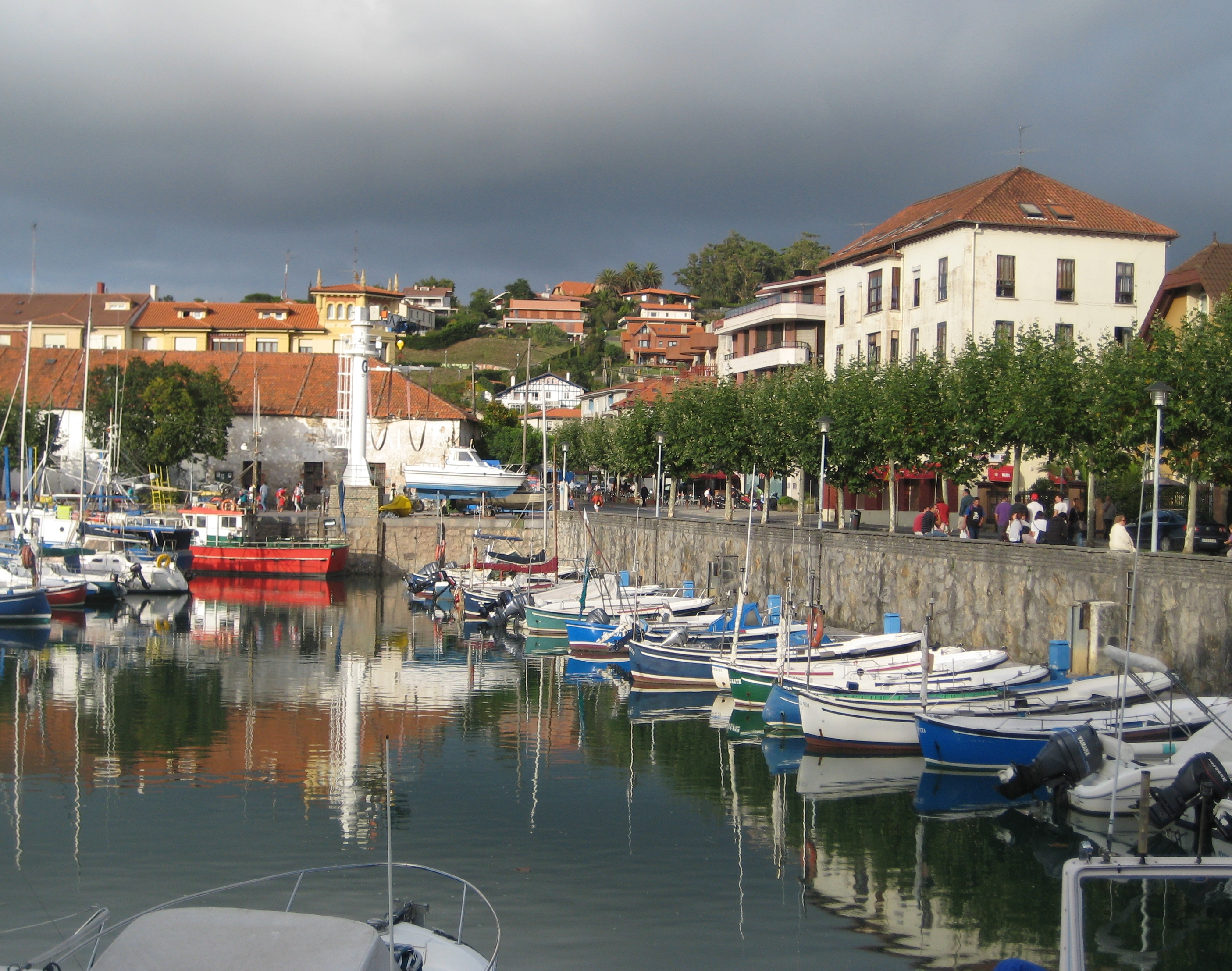 Port of Plentzia, and hill of Gusurmendi, in Gorliz.